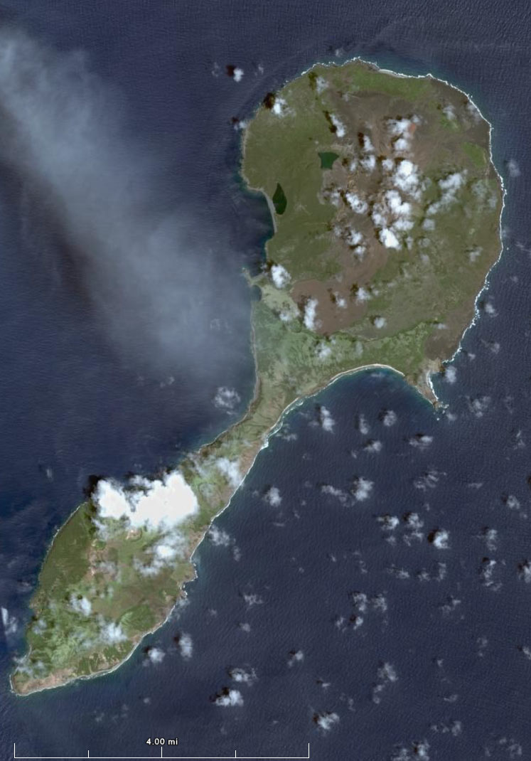 Satellite view of Pagan Island, Northern Mariana Islands, USA, from NASA.